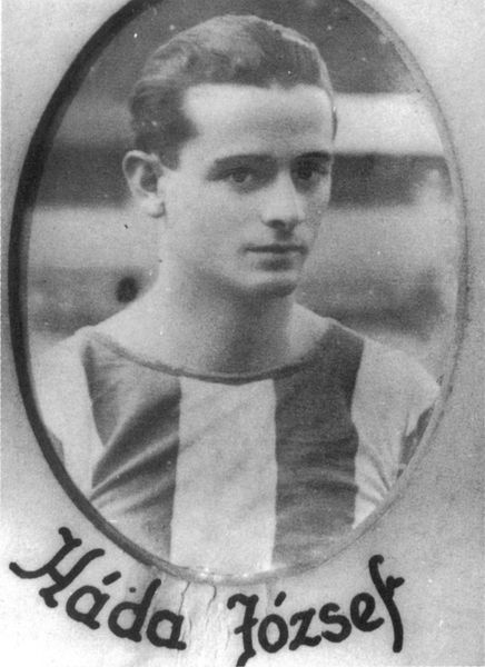 József Háda (2 March 1911 - 11 January 1994) was a Hungarian football goalkeeper who played for Hungary in the 1934 and 1938 FIFA World Cups.